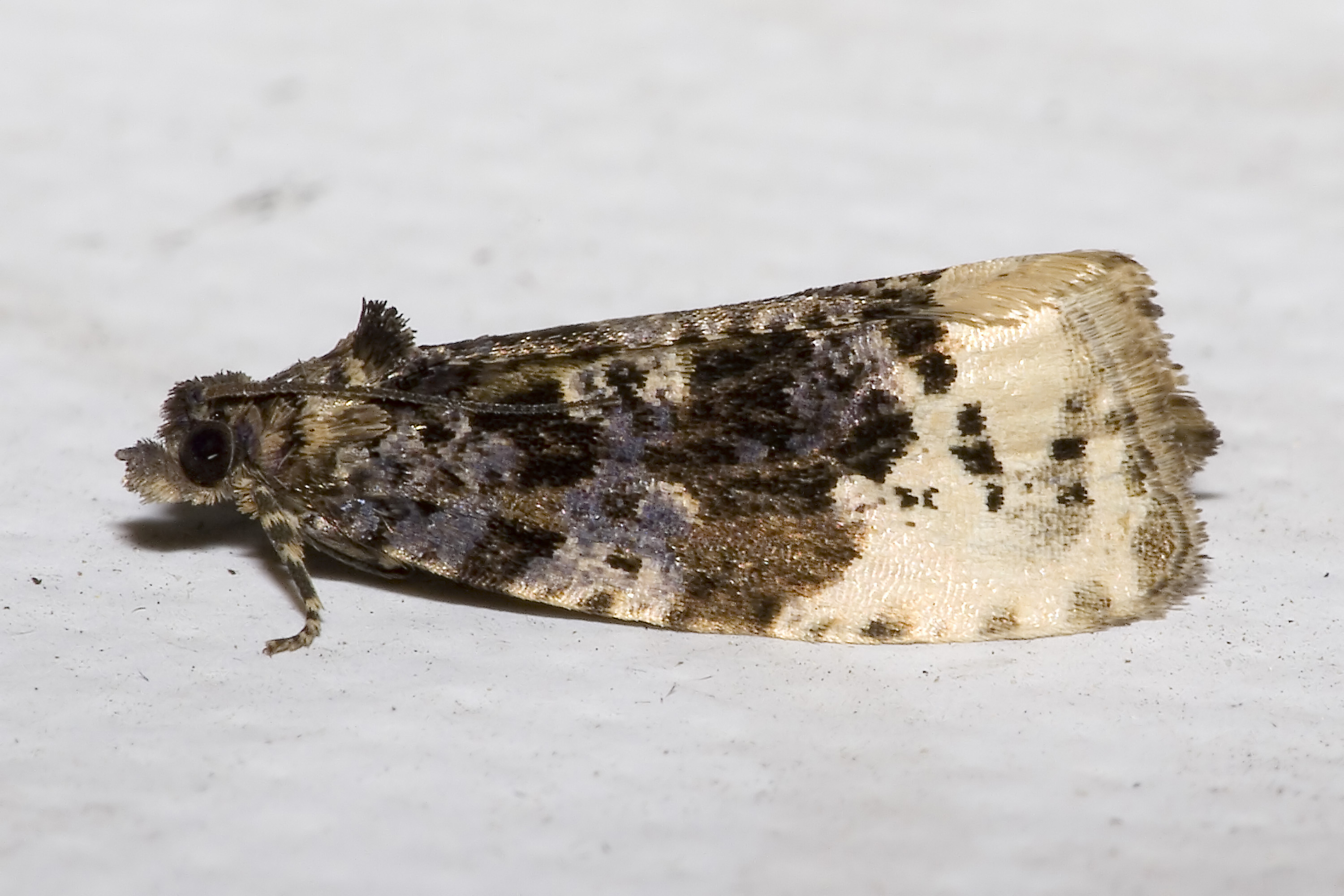 Marbled Orchard Tortrix